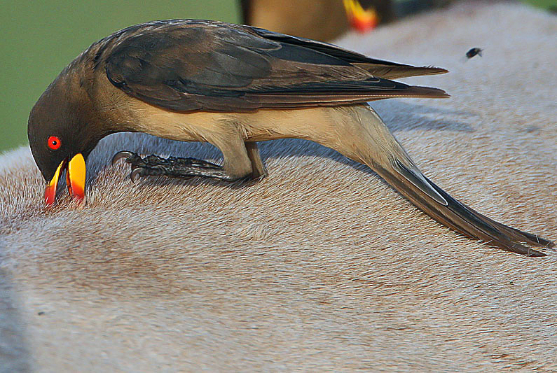 Image taken near Tendaba, The Gambia. An adult bird in typical feeding mode. The bill is scissored through the host's fur picking up small parasites. Oxpeckers also pick away at wounds & sores -often keeping them open; a significant part of their diet consists of the host's blood and tissue!